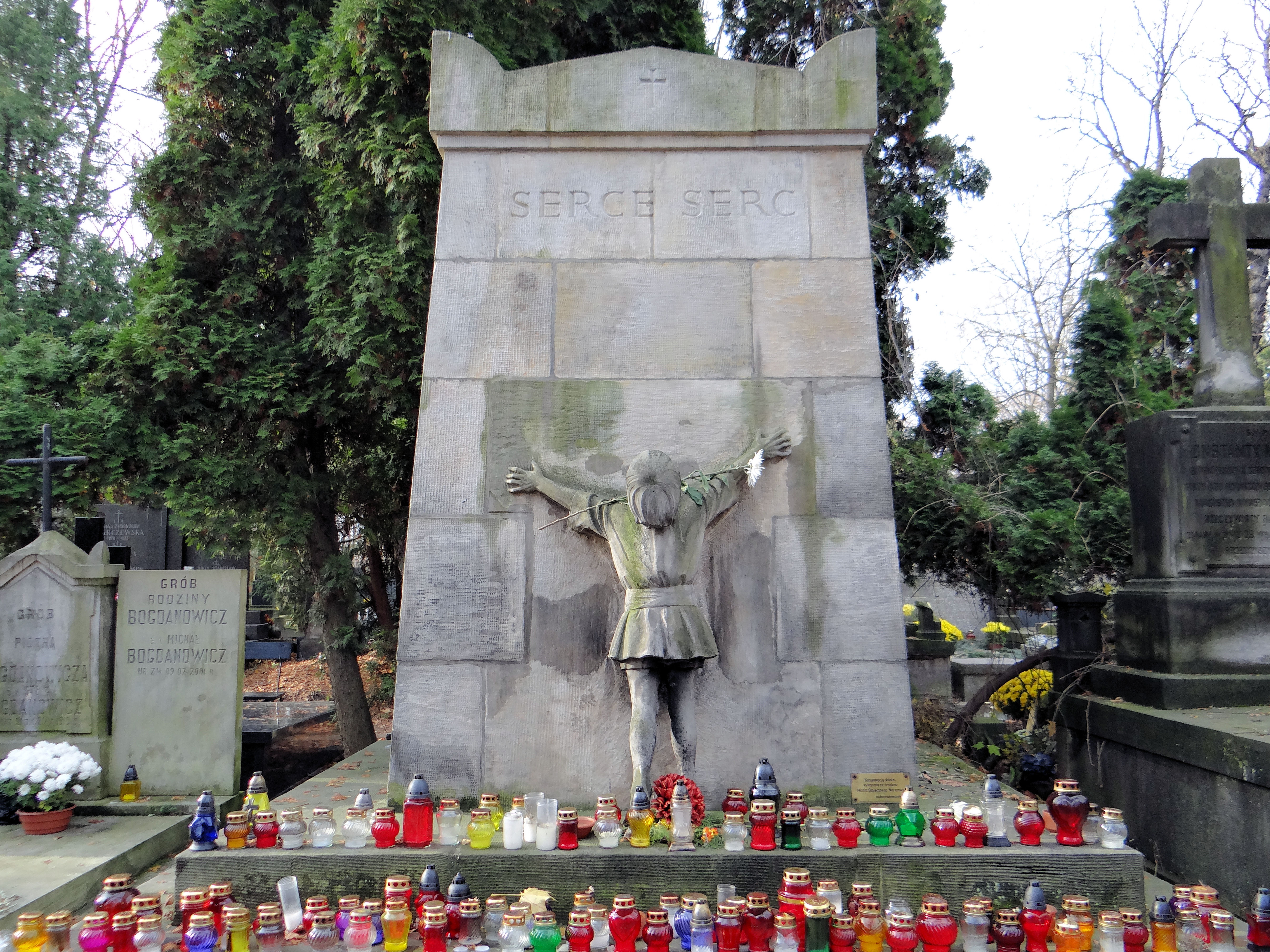 Grave of Bolesław Prus